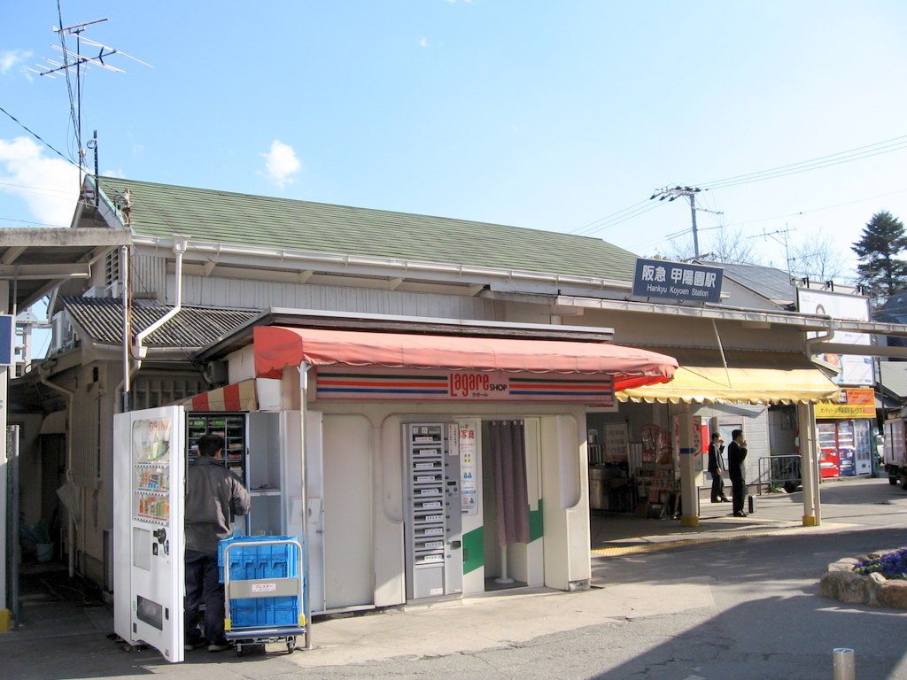 Koyoen Station of Hankyu Railway, in Nishinomiya, Hyogo, Japan